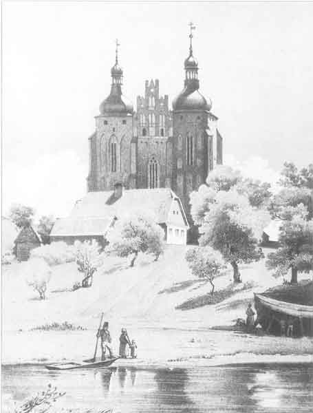 Cathedral in Włocławek, engraving